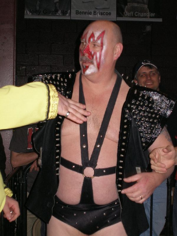 Barry Darsow (aka Demolition Smash) at Chikara's King of Trios show in 2008.